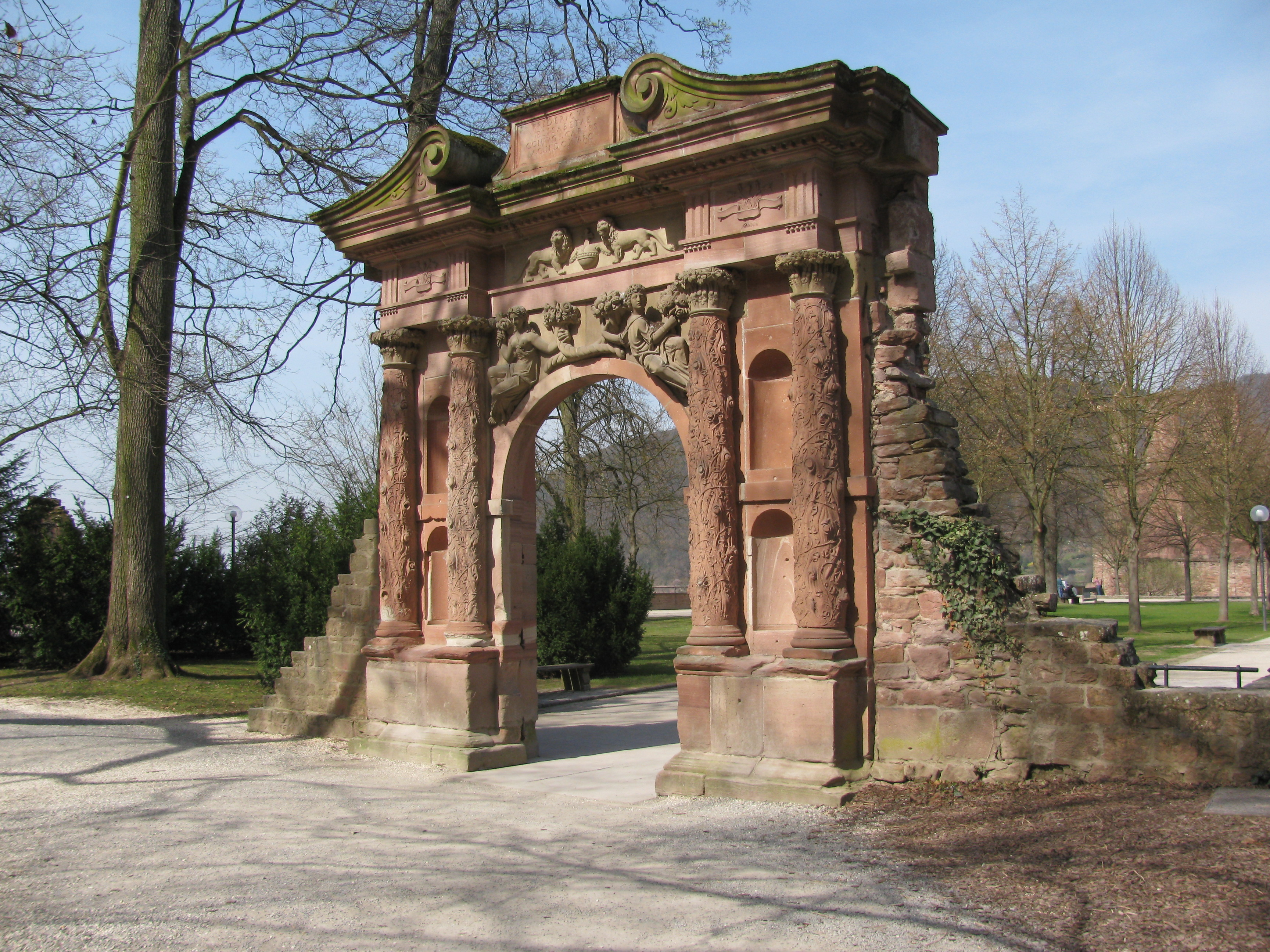 Heidelberg Castle, the gate "Elisabethentor", from 1615, early baroque.